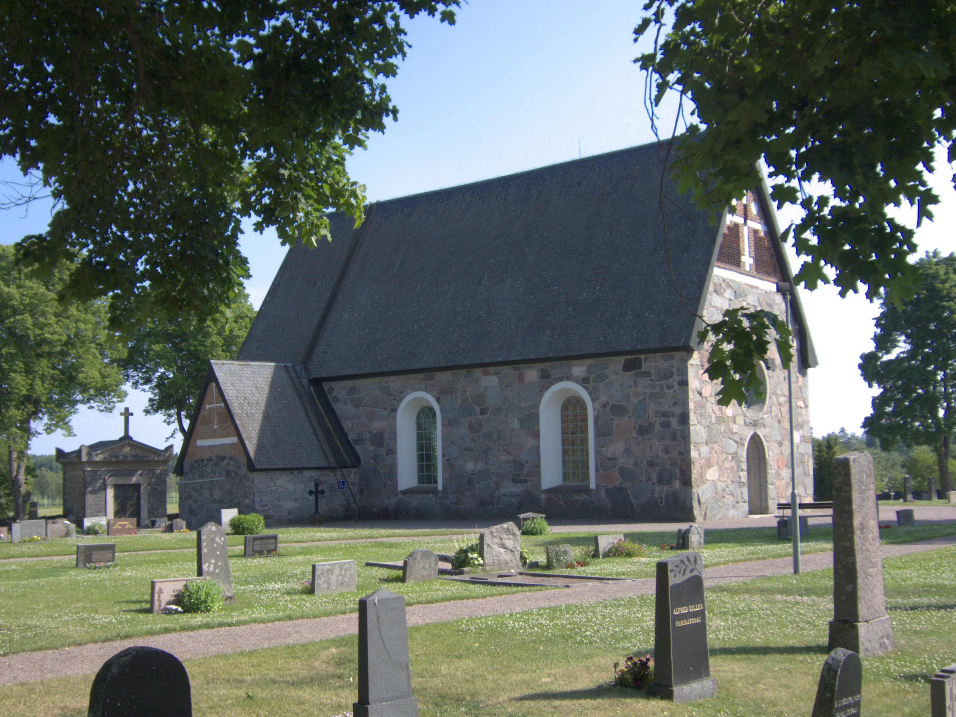 Film church, Uppland